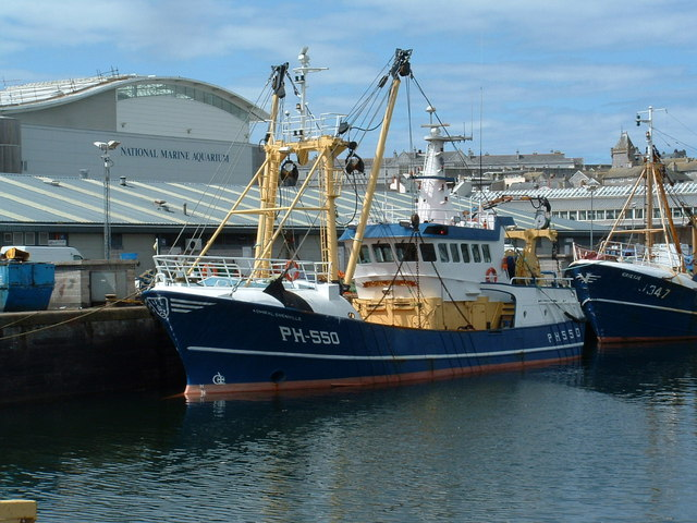 Admiral Grenville beam trawler Brand new boat at the time of taking along side the new Plymouth fish market in Sutton Harbour, national Marine Aquarium is there in the background.